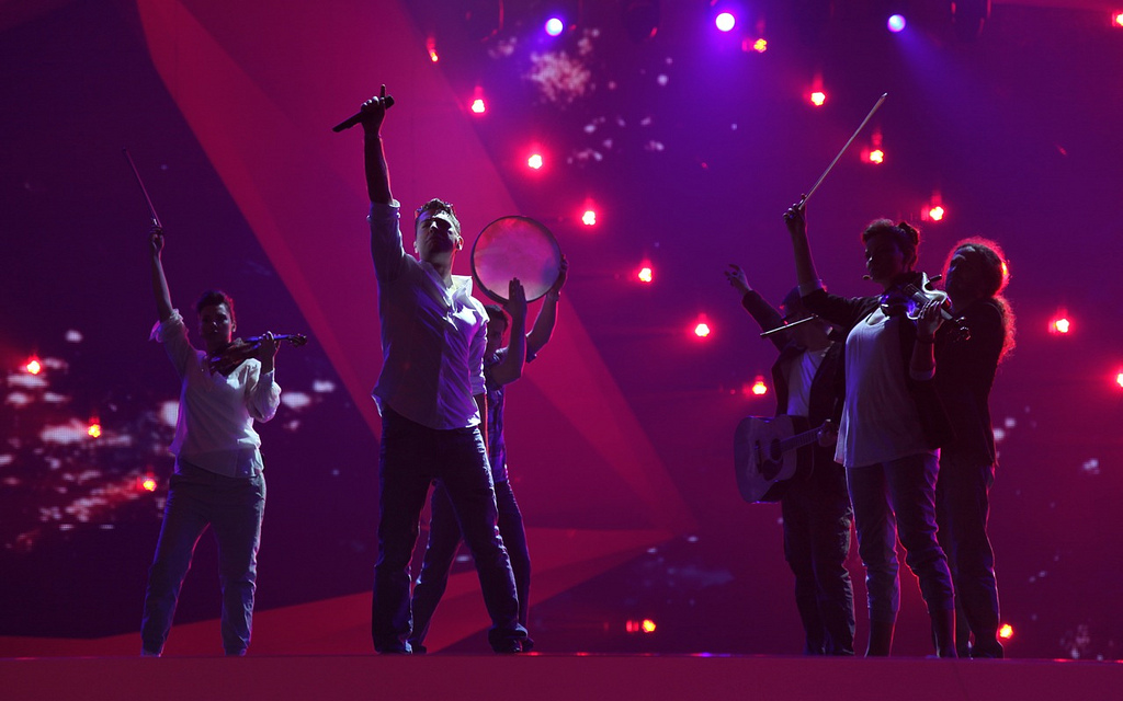 Final scene of Serbian ESC 2012 appearance